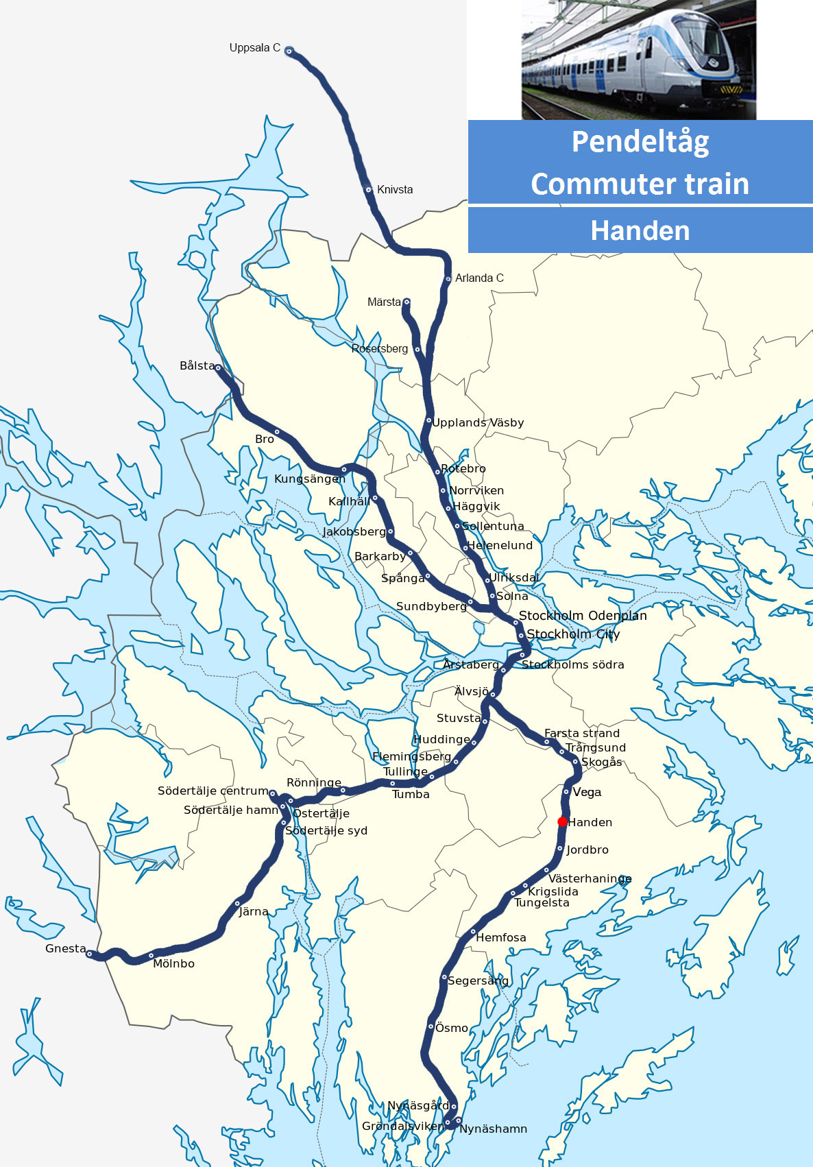 Handen station map